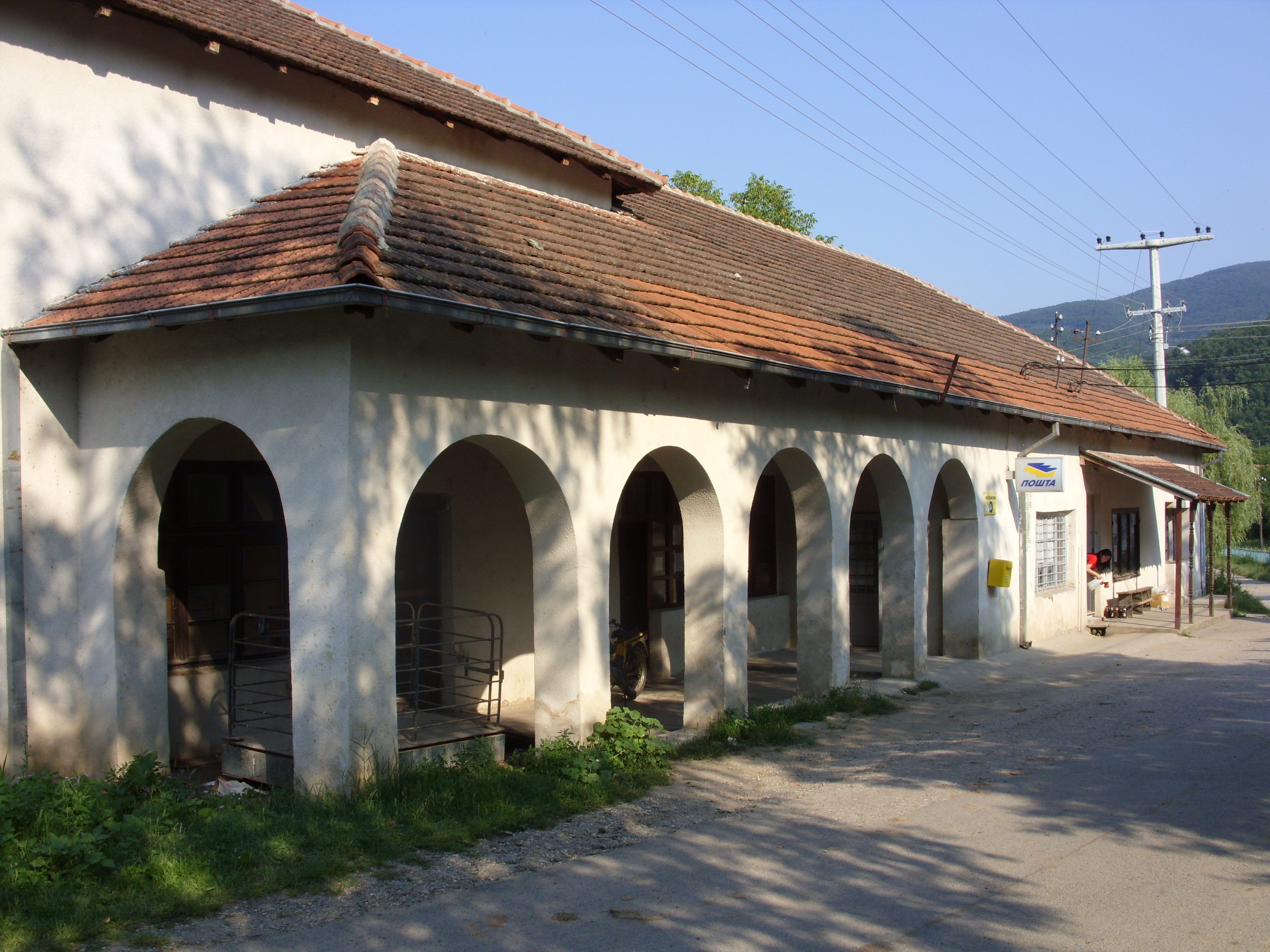 village of Kulina, Aleksinac Municipality, Serbia